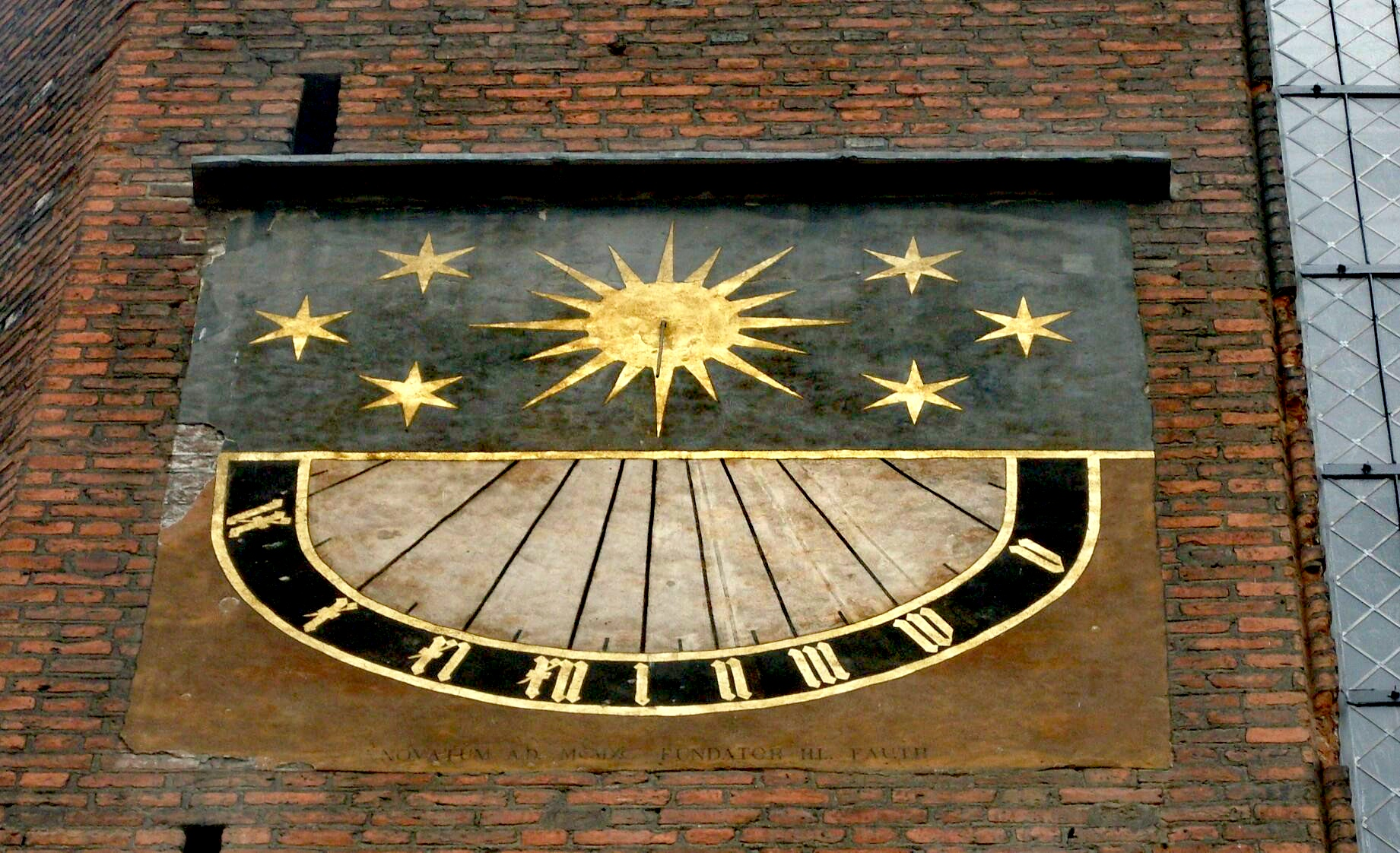 Sundial at St. Mary's Church in Gdańsk.jpg; the inscription reads NOVATUM A.D. MCMXC FUNDATOR HL FAUTH (i.e. Hans-Lothar Fauth